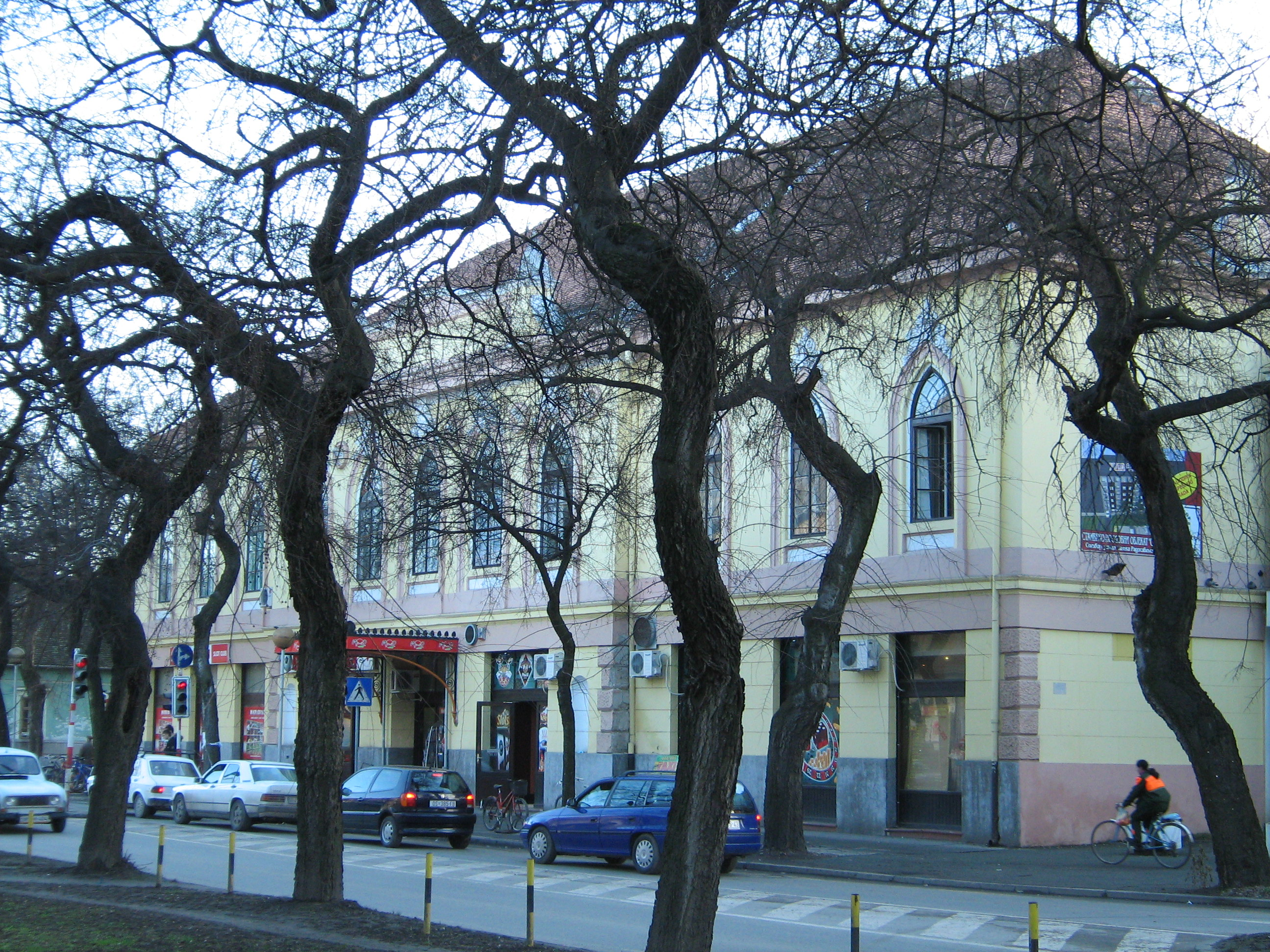 Old building of the Hotel Internacion (Sloboda) in Sombor (1856)